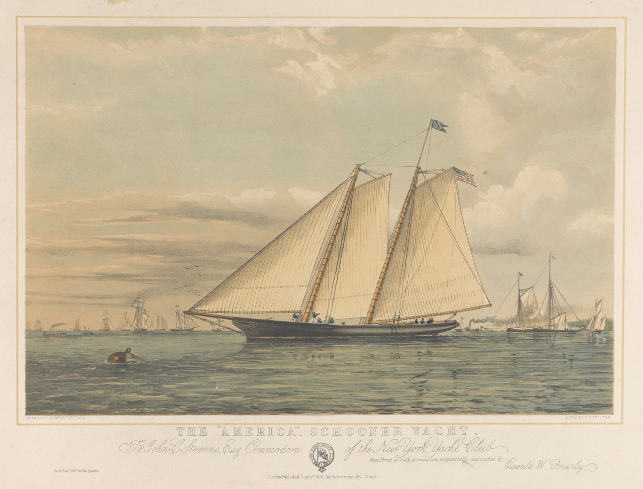 The America, schooner yacht. To John C Stevens, esq Commodore of the New York Yacht Club